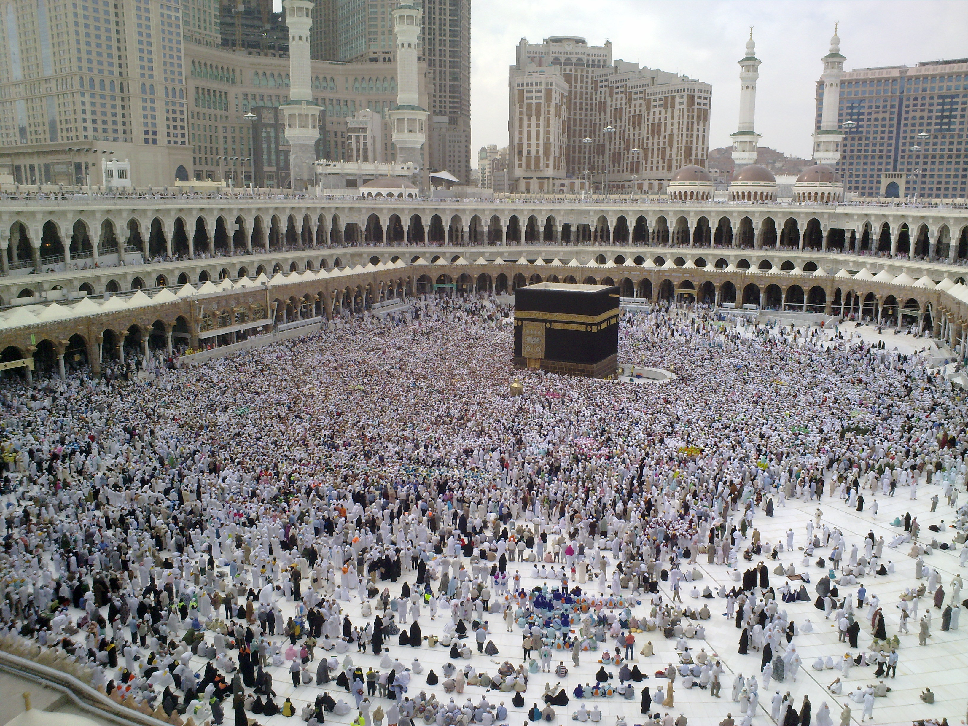 A Last day of Hajj - all pilgrims leaving Mina, many already in Mecca for farewell circumambulation of Kaaba. Photo by Omar Chatriwala